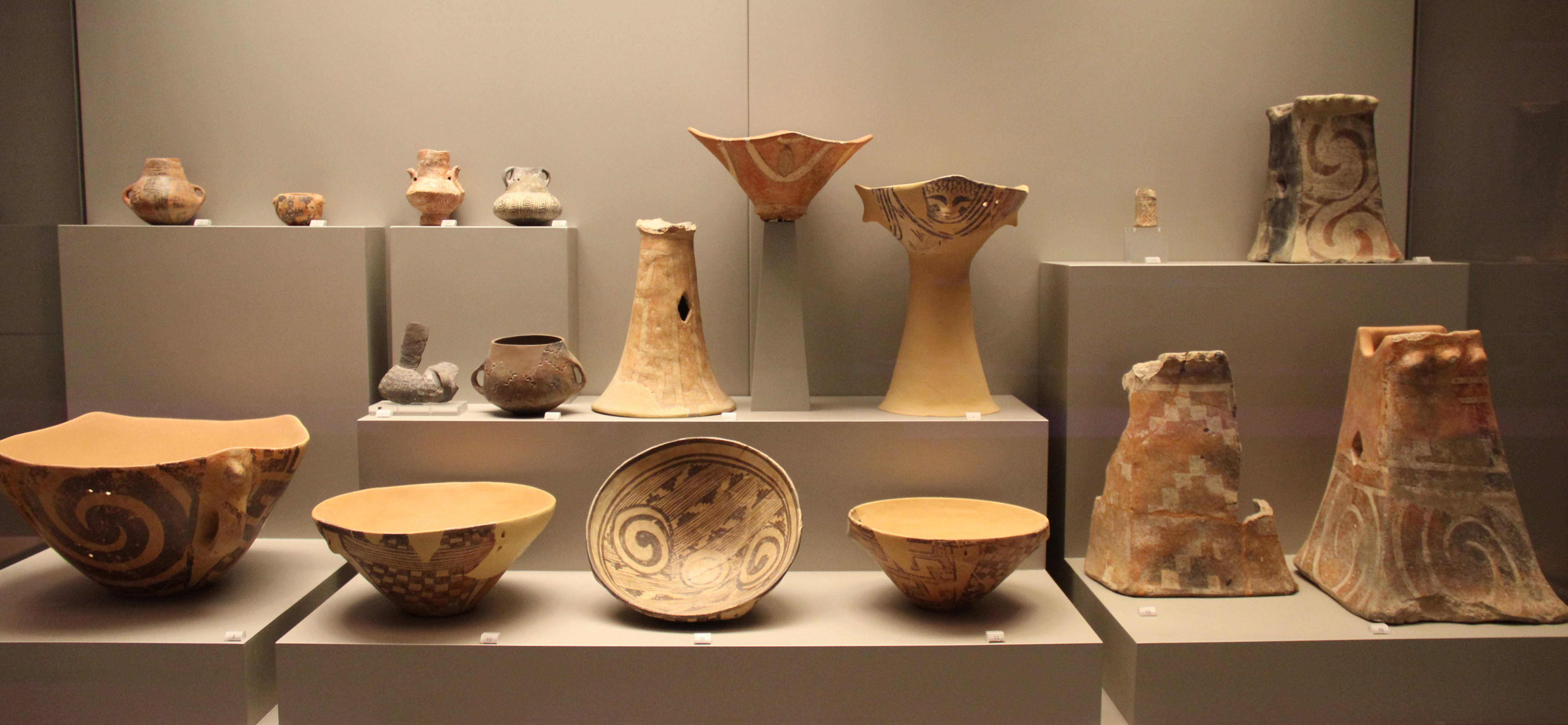 Sesklo and Dimini Late Neolithic Pottery 5300-4500 BC. Greek Prehistory Gallery, National Museum of Archaeology, Athens, Greece. Complete indexed photo collection at .